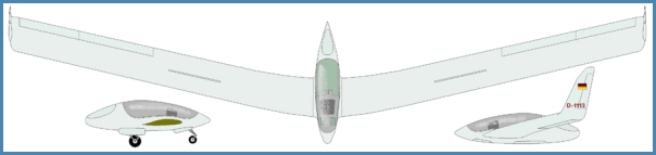 Akaflieg Braunschweig SB 13 Flying Wing